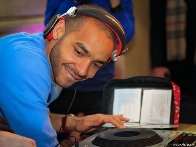 DJ Mehdi, february 2011